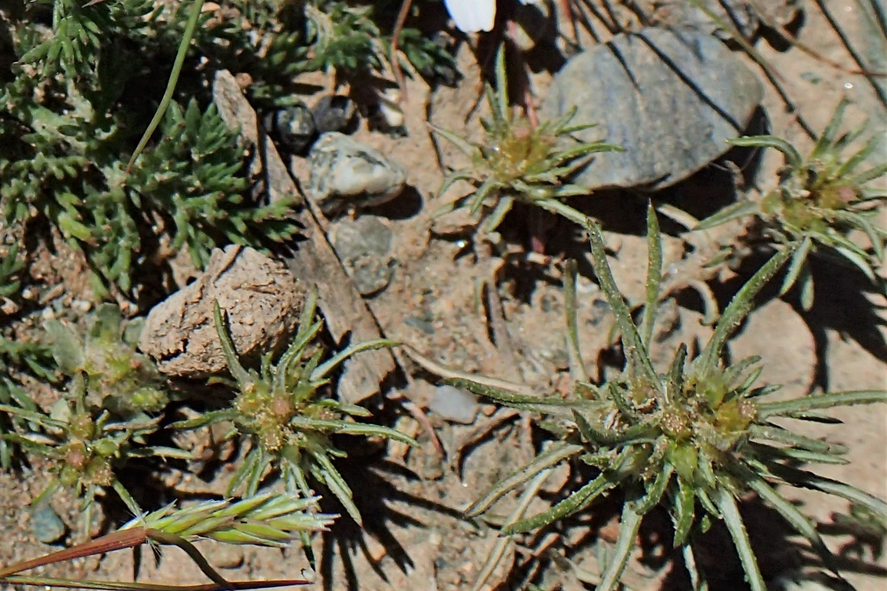 Ifloga spicata in Majjat (Marrakesh-Safi, Morocco)